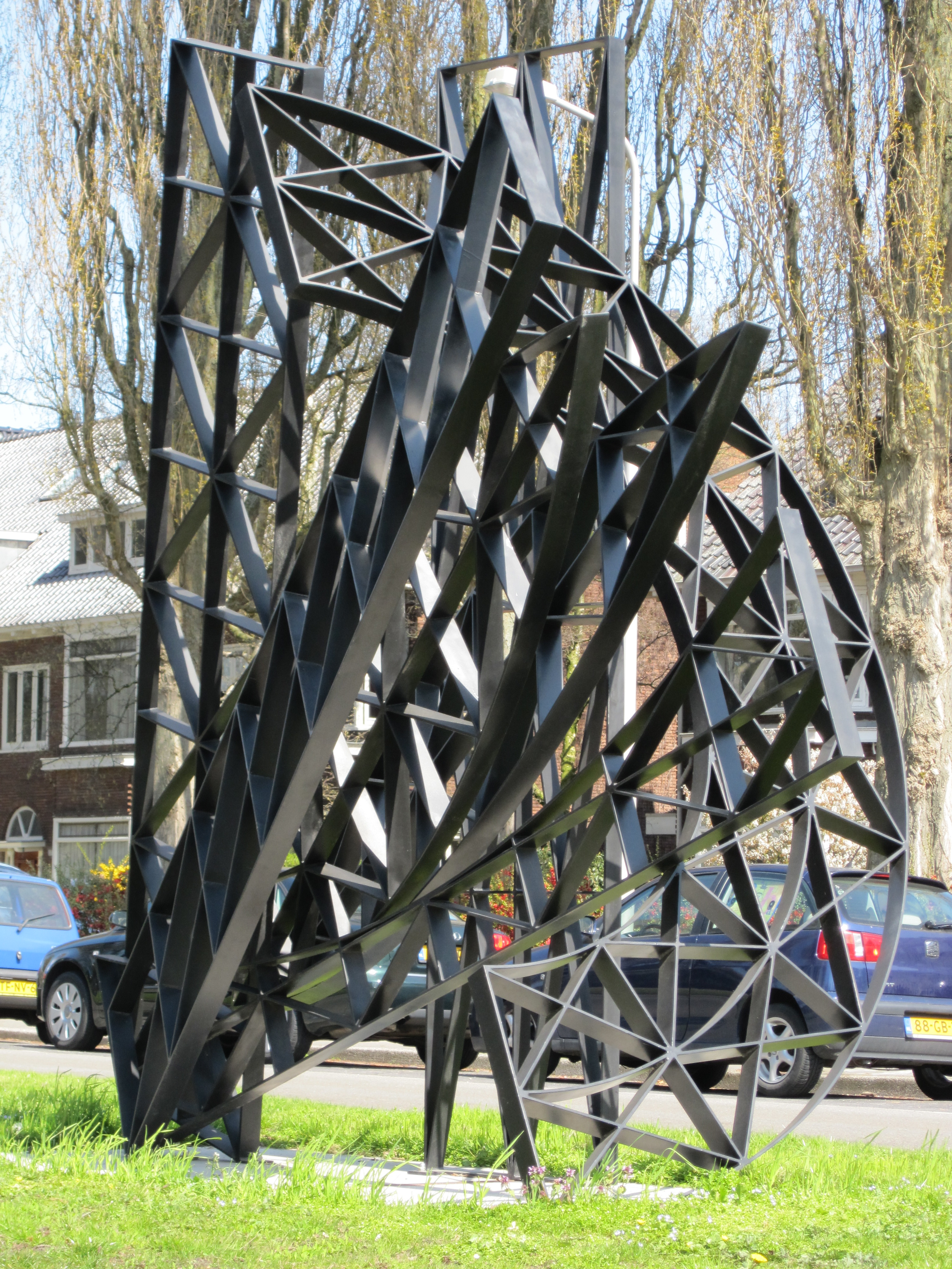 Public commission.Municipal Amstelveen.the Netherlands.